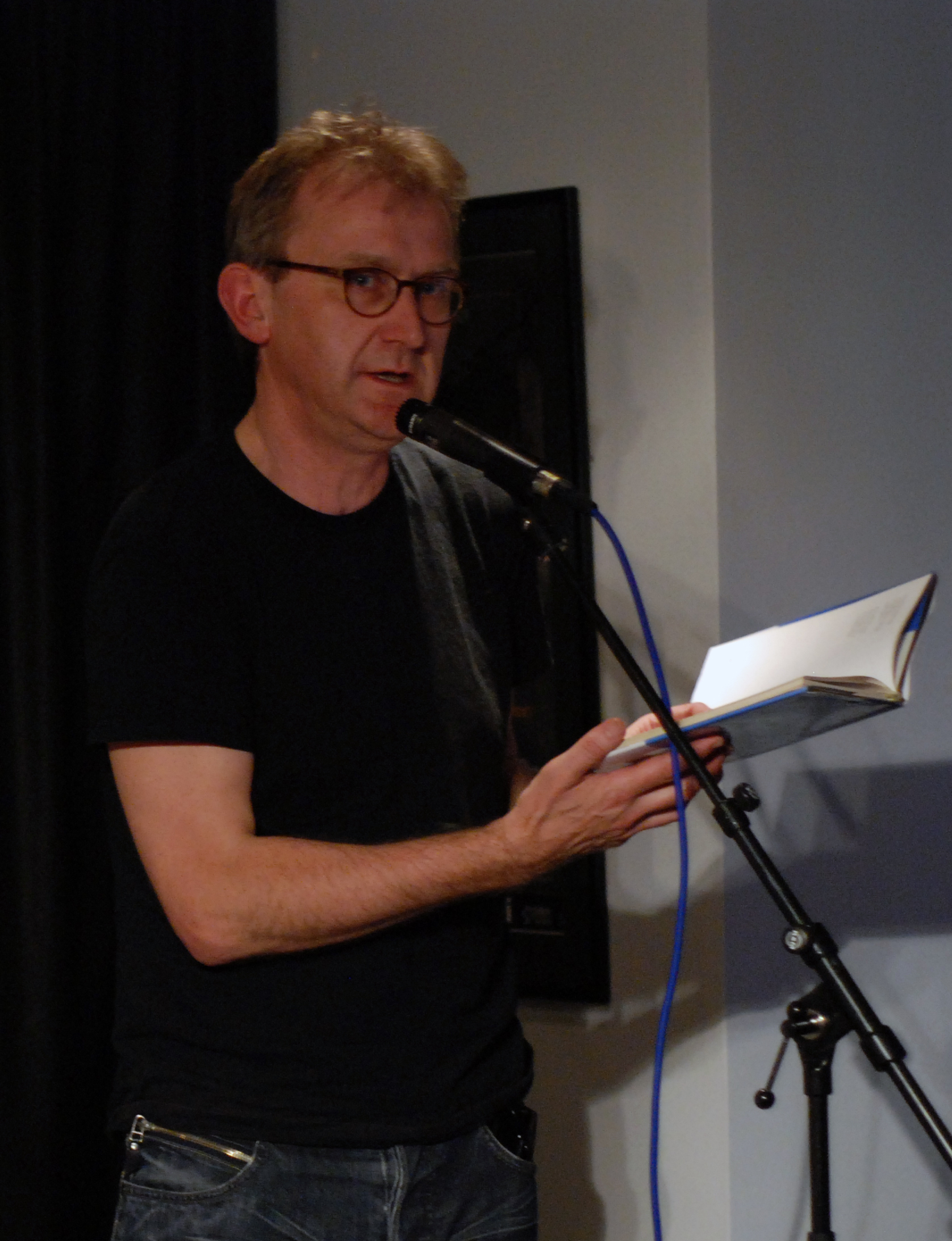 Ove Røsbak - live at Gregers bar in Hamar, Hedmark, Norway.